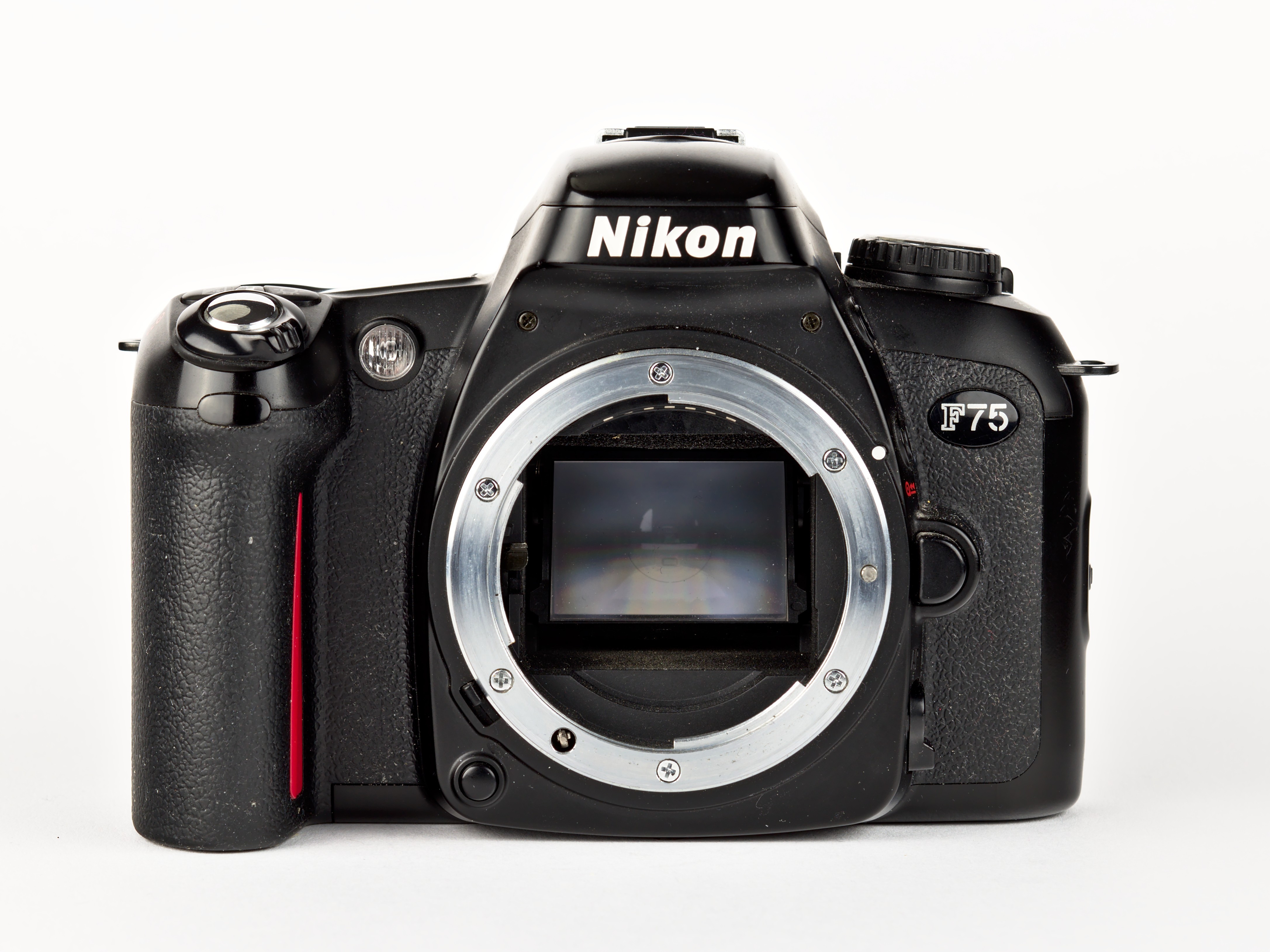 The Nikon F75 (or N75), one of the last consumer-level analog single-lens reflex cameras made by Nikon.